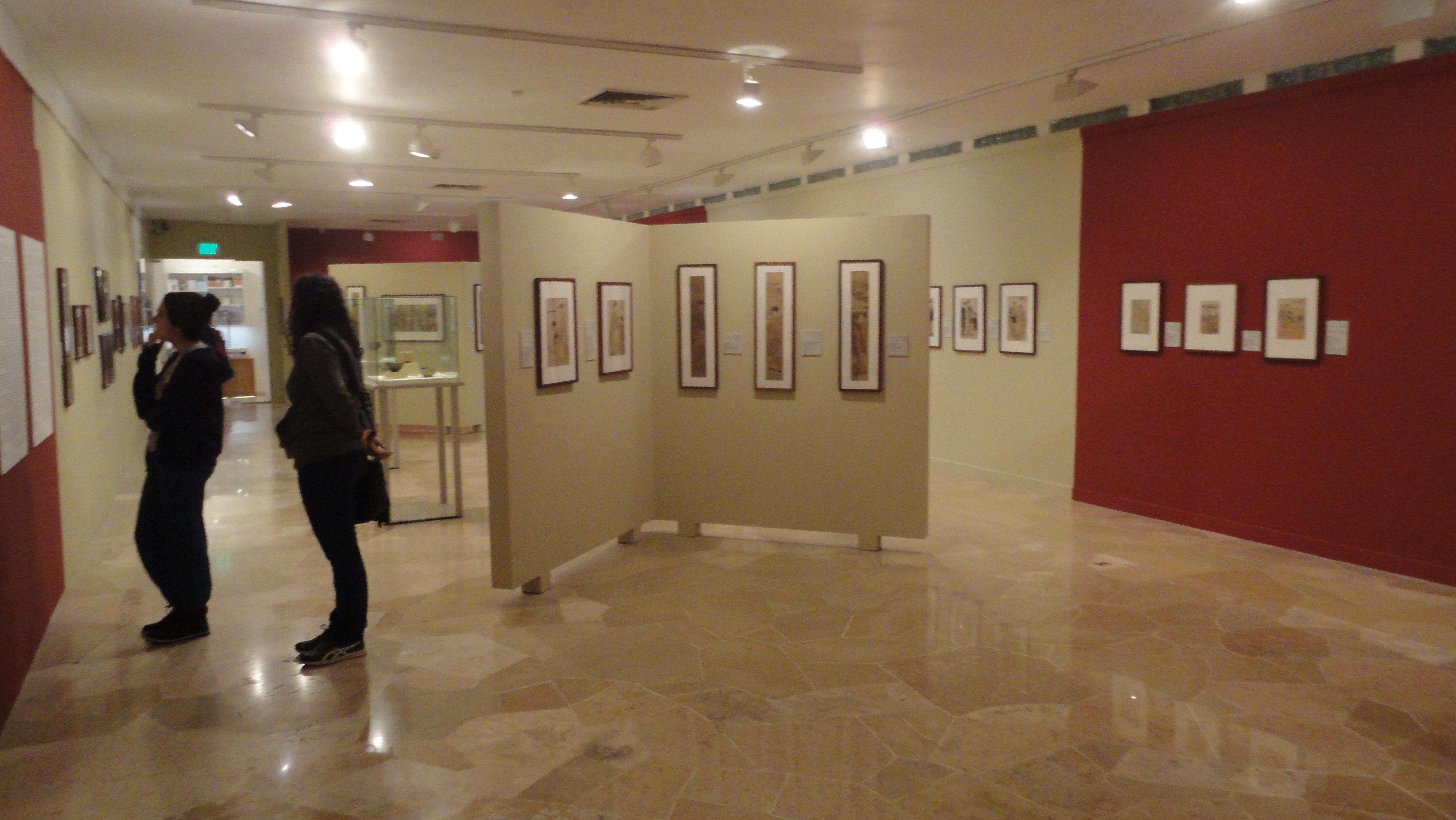 Tikotin Museum of Japanese Art